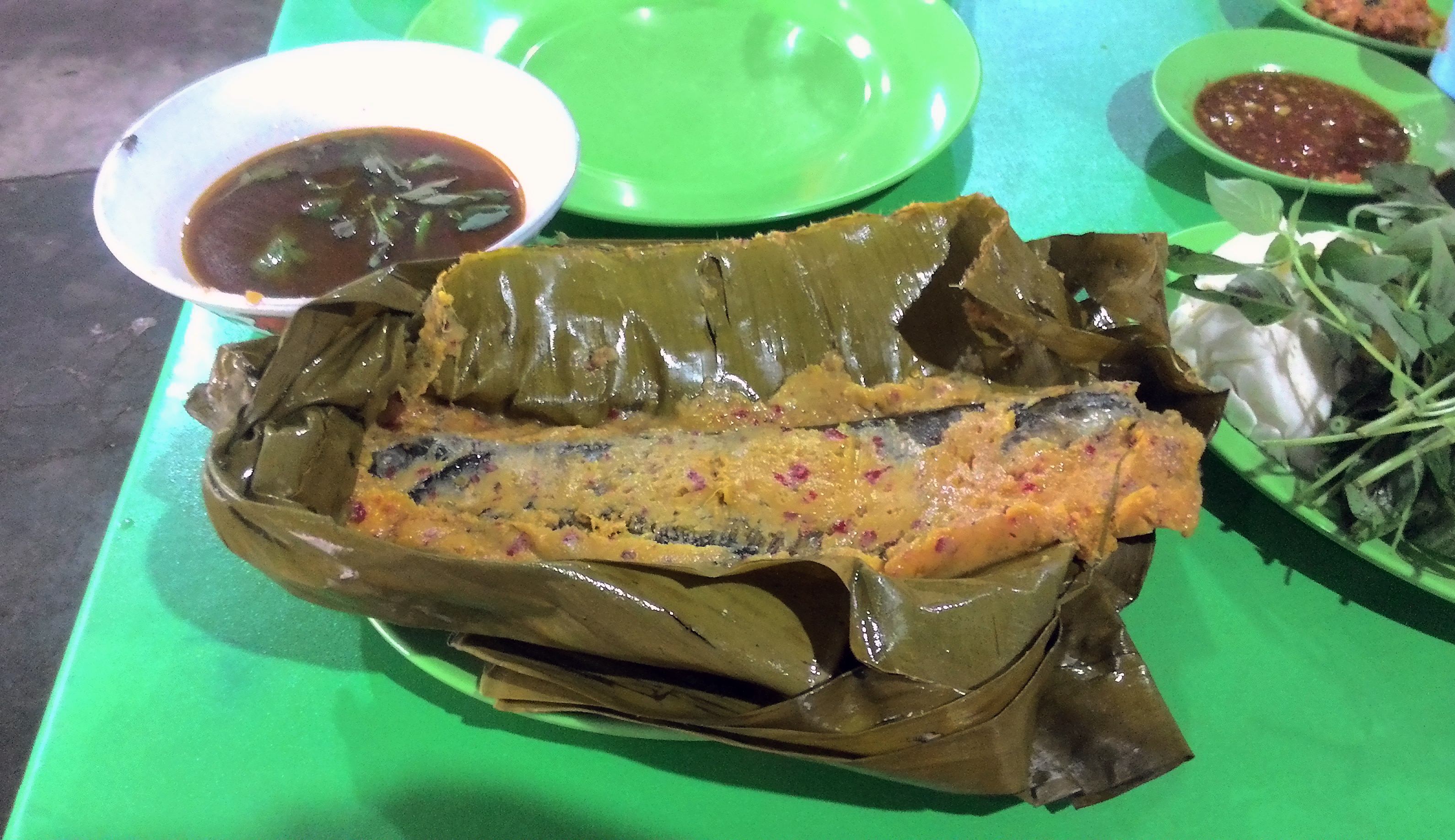 Brengkes Tempoyak iwak Lais served in Palembang. It is Kryptopterus cryptopterus freshwater fish seasoned with tempoyak fermented durian sauce, cooked inside banana package. Specialty of Palembang, South Sumatra, Indonesia.